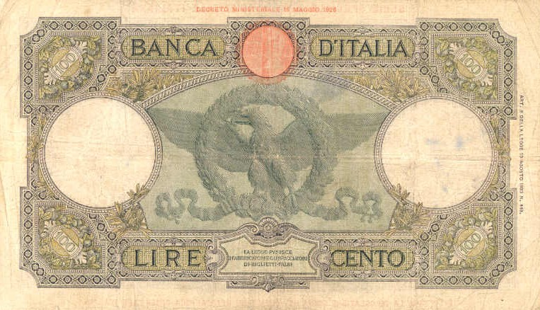 Banknotes of Italian East Africa 100 lire (1938)